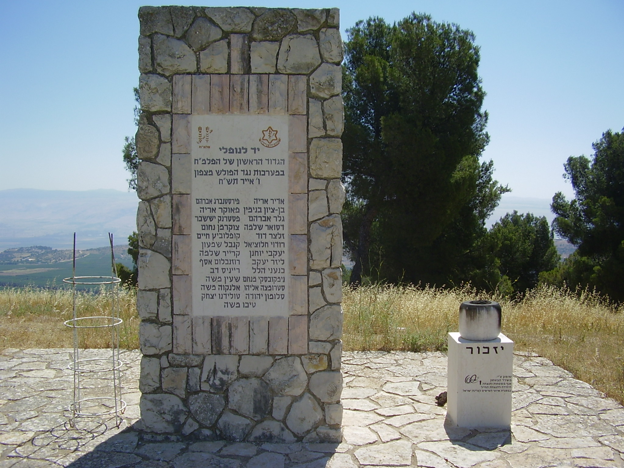 malkye memorial in kibbutz malkye, upper galilee